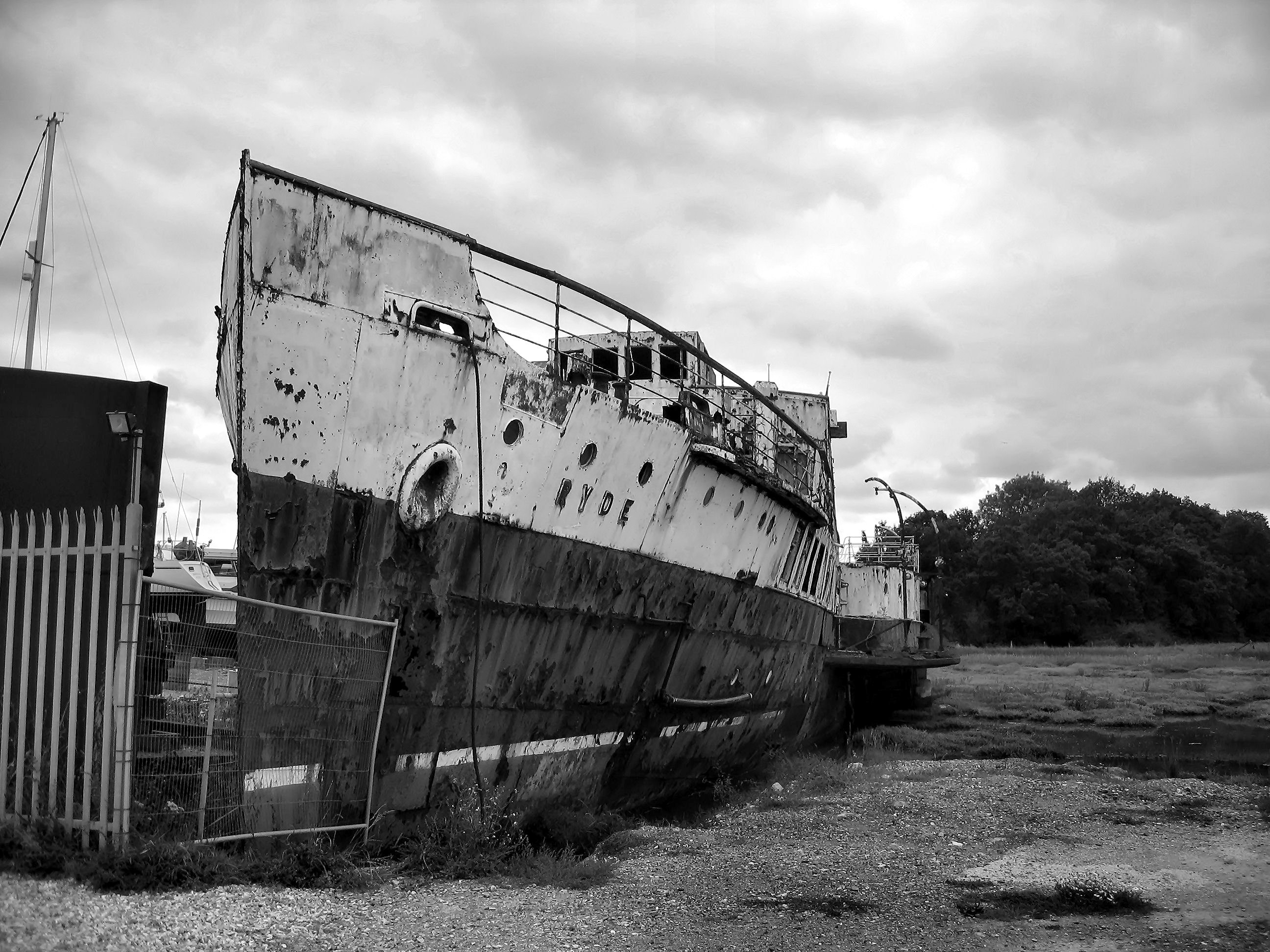 PS Ryde rotting away near Newport Isle of Wight.